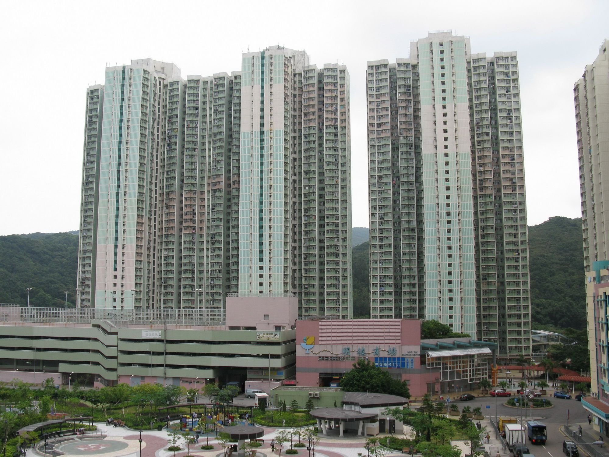 明德邨(左、中)及顯明苑(右) Ming Tak Estate (left, central) & Hin Ming Court (right)